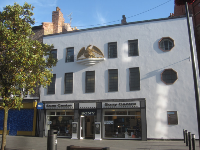 Sony Centre in Liverpool, England, formerly the Consulate of the United States in Liverpool